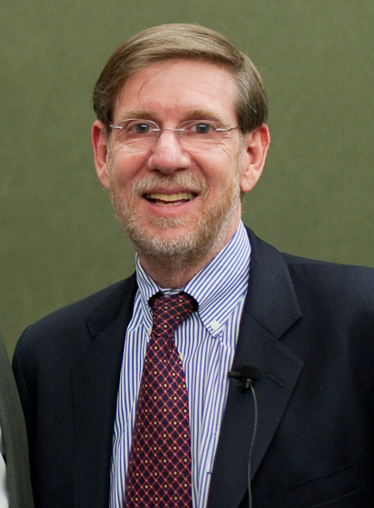 David Aaron Kessler at a Hudson Union Society event in April 2009.